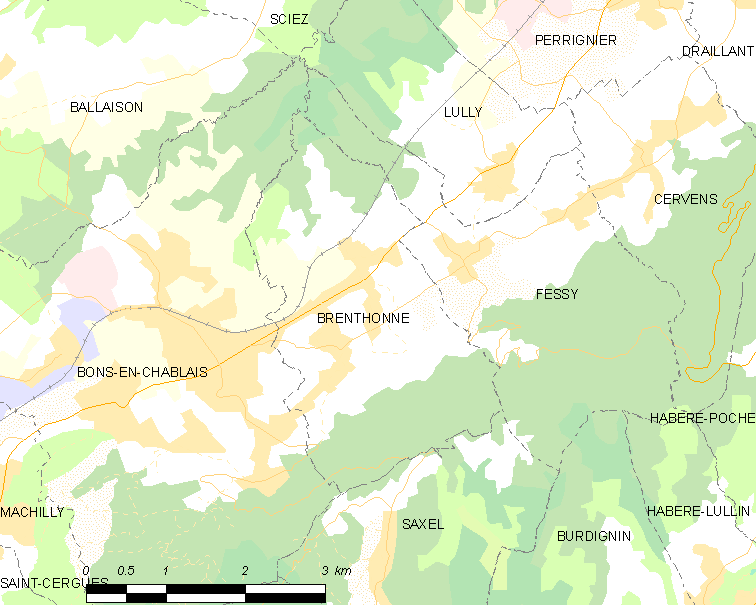 Map of French municipality Brenthonne